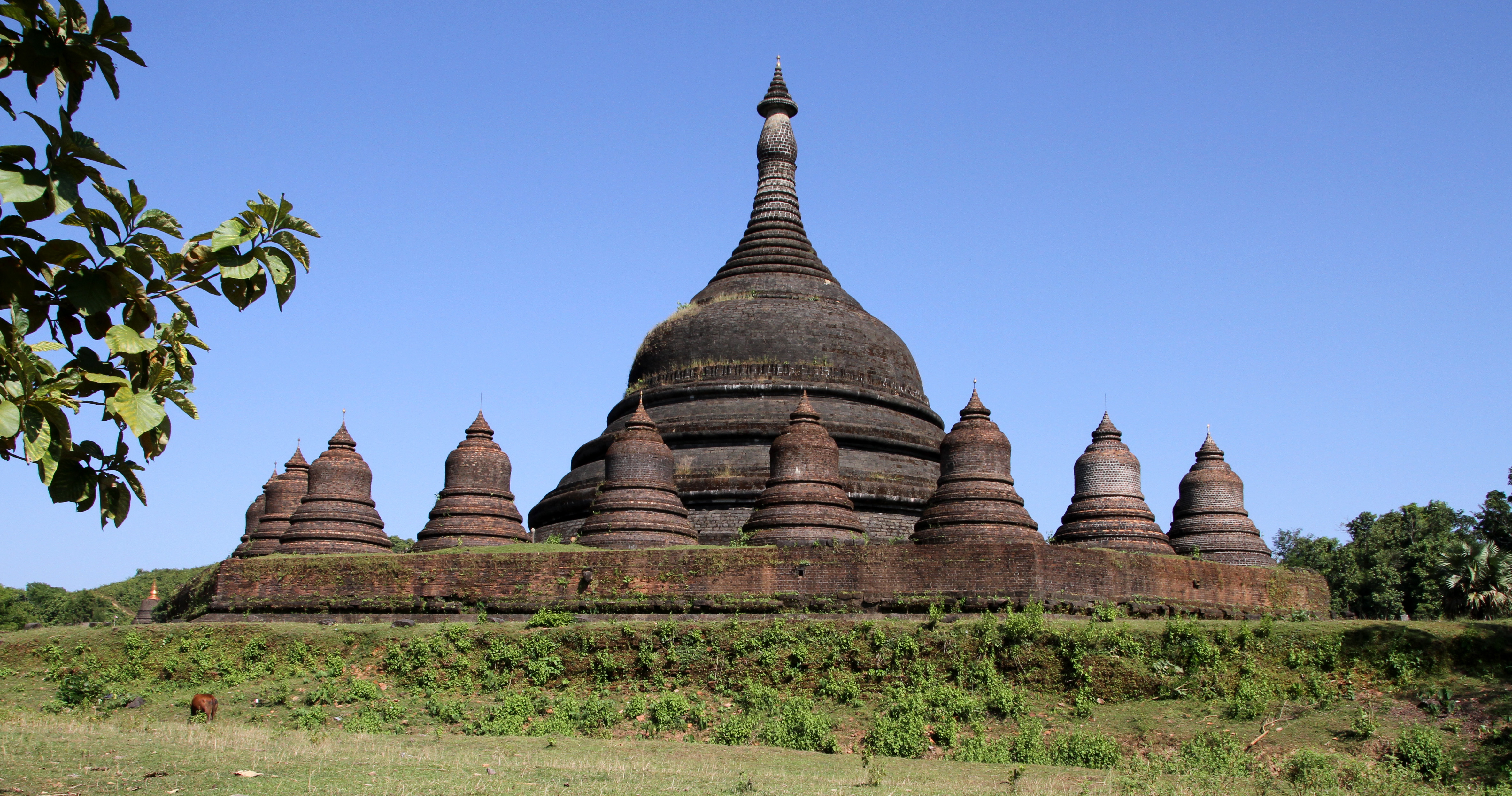 Ratanabon temple, Mrauk U, Myanmar.